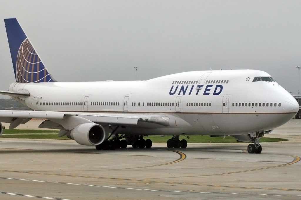 Continental Merge scheme Chicago O Hare International KORD/ORD